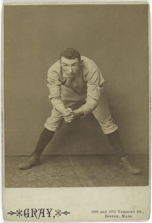 Tom Gunning, Albumen Print, Circa 1885